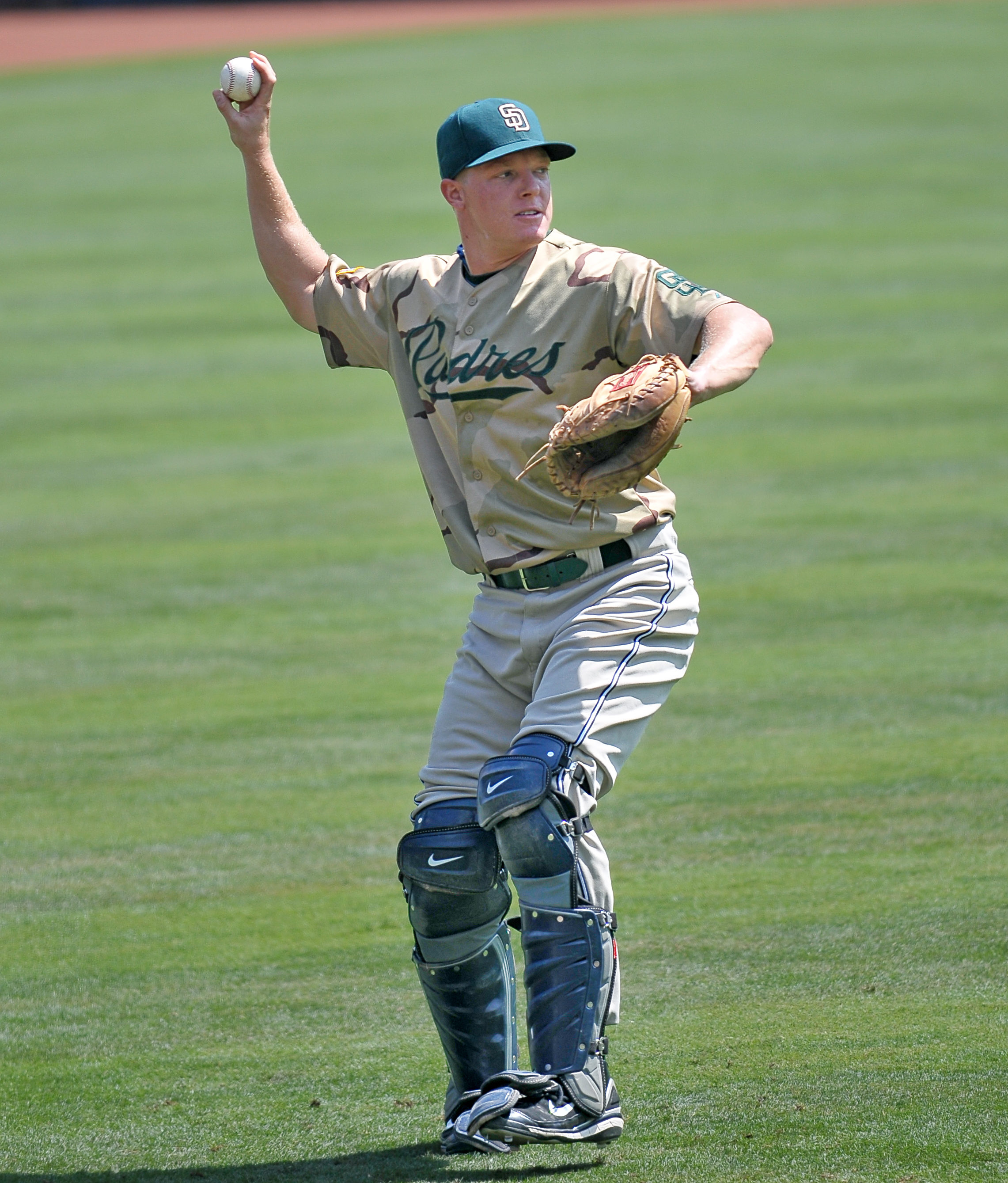 Nick Hundley catcher for the San Diego Padres 2008 at Petco Park